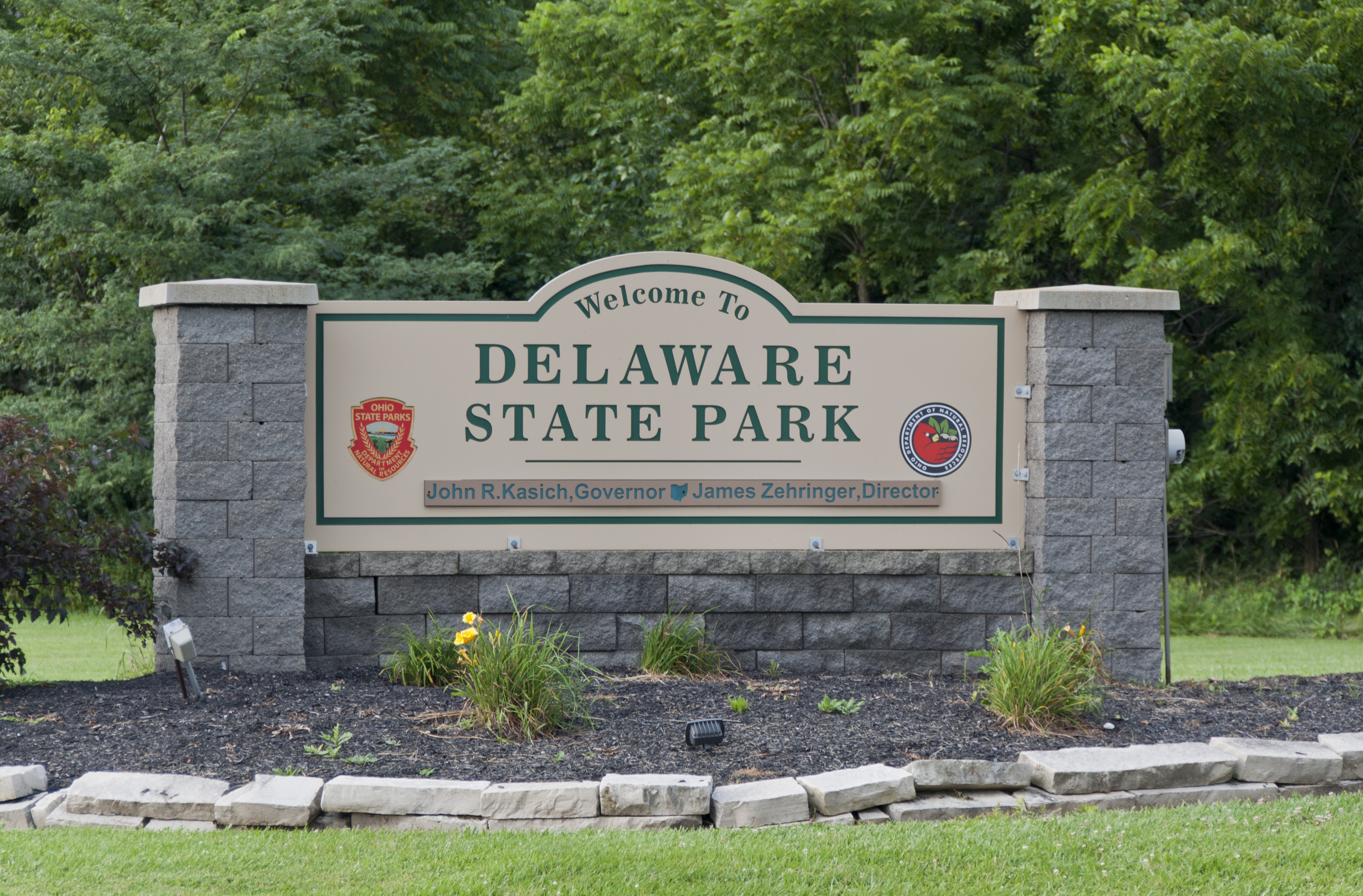 Entrance to Delaware State Park, Ohio. The Park opened in 1952 following the completion of the Delaware Dam in 1951.